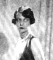 Princess Irina Pavlovna Paley